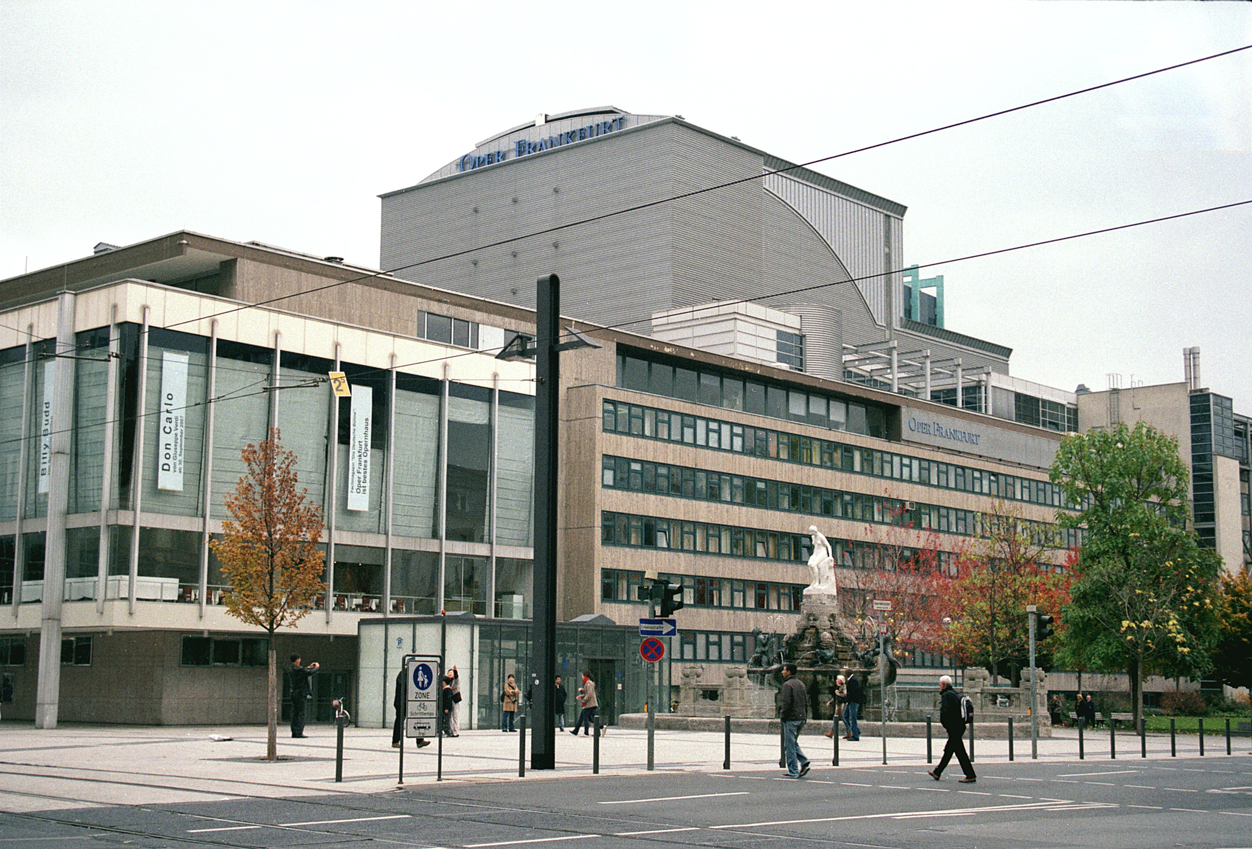 Frankfurt am Main, New Opera House and fairy tail fountain